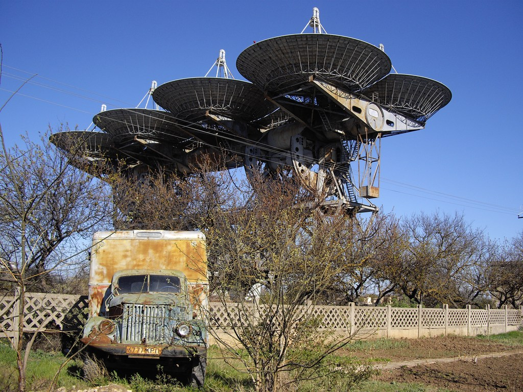 ADU-1000 radiotelescope